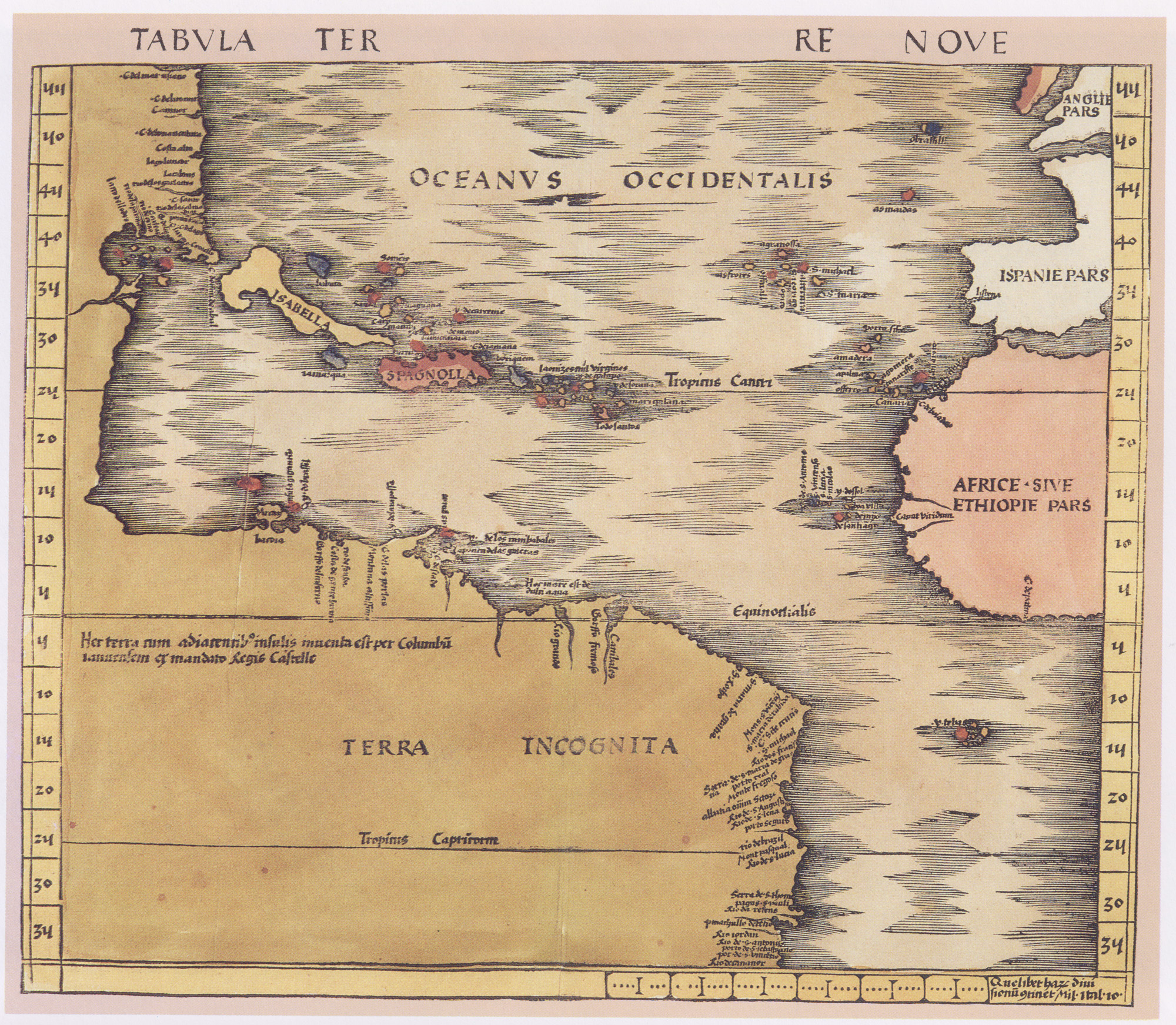 Map of the New World (Tabula Terre Nove), an extra-Ptolemaic map of the lands around the South Atlantic by Martin Waldseemüller(1513)